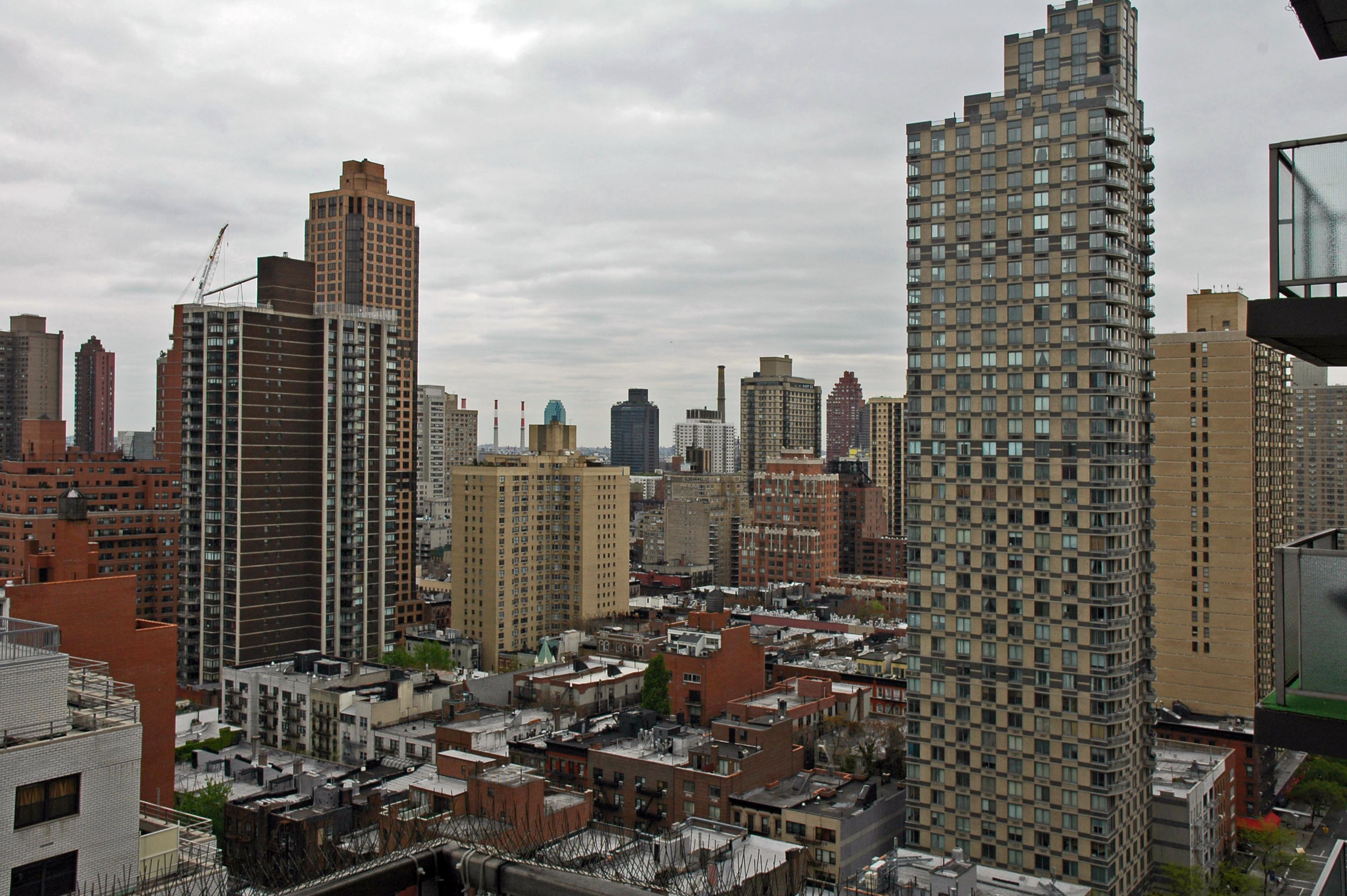 Photography by Leif Knutsen, May 8, 2005